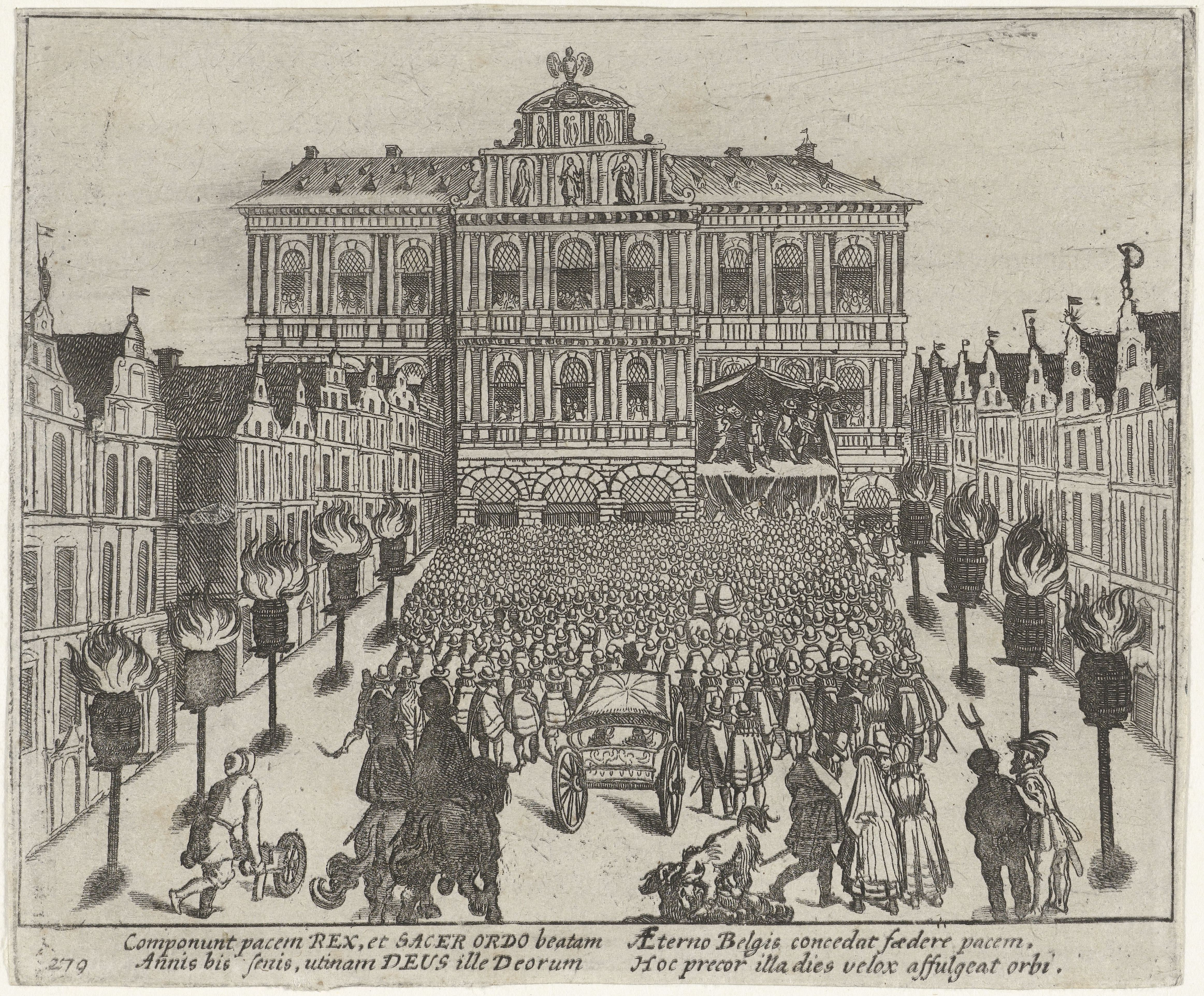 Twelve Years' Truce declared in Antwerp in 1609. Town square with town hall. Crowd. Trumpet players. Illumination using tar barrels. Horses. Dogs. Wheelbarrow. Latin text: Componunt pacem REX, et SACER ORDO beatam Annis bis senis, utinam DEUS ille Deorum Aeterno Belgis concedat foedere pacem, Hoc precor illa dies velox affulgeat orbi.